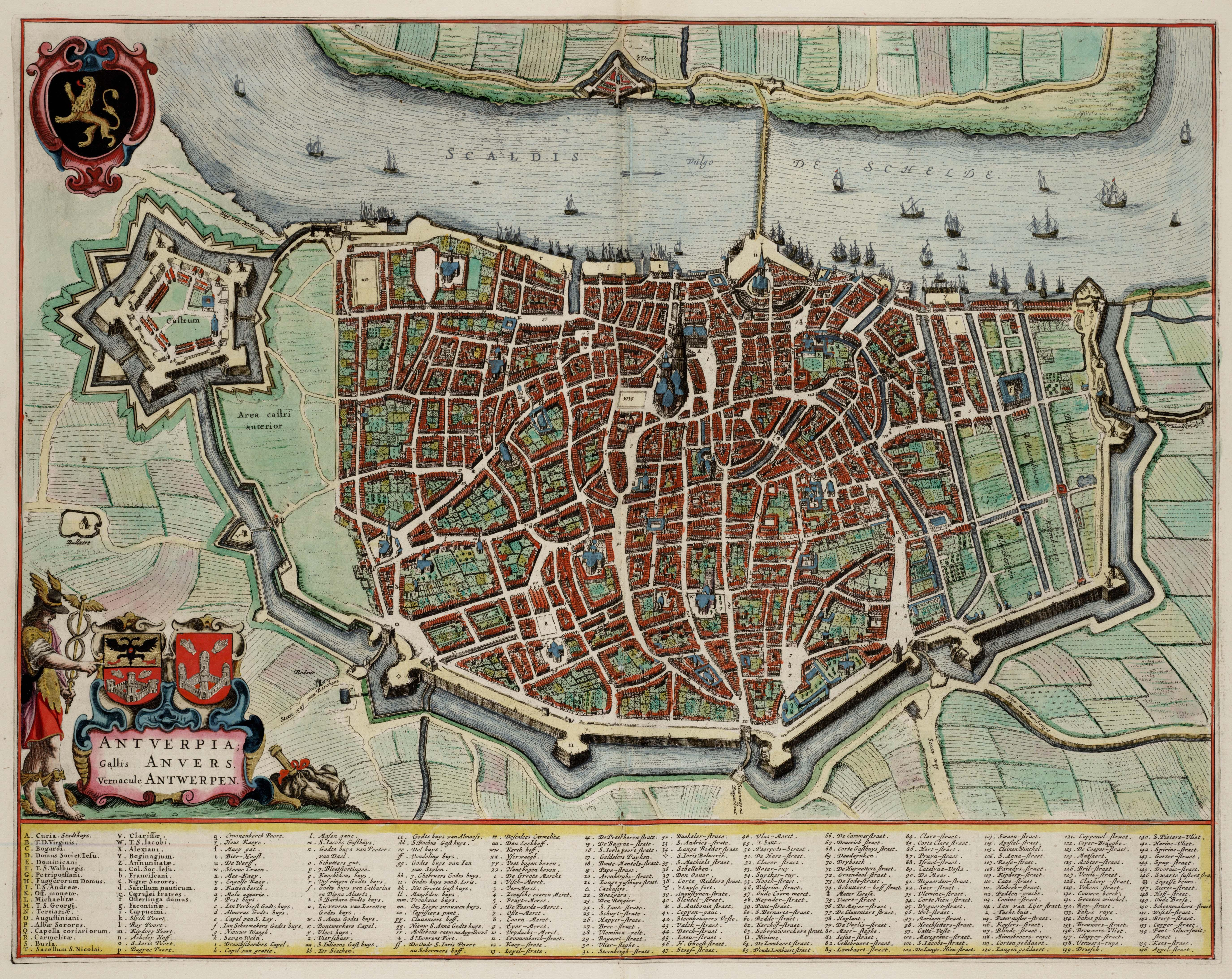 Antwerp.